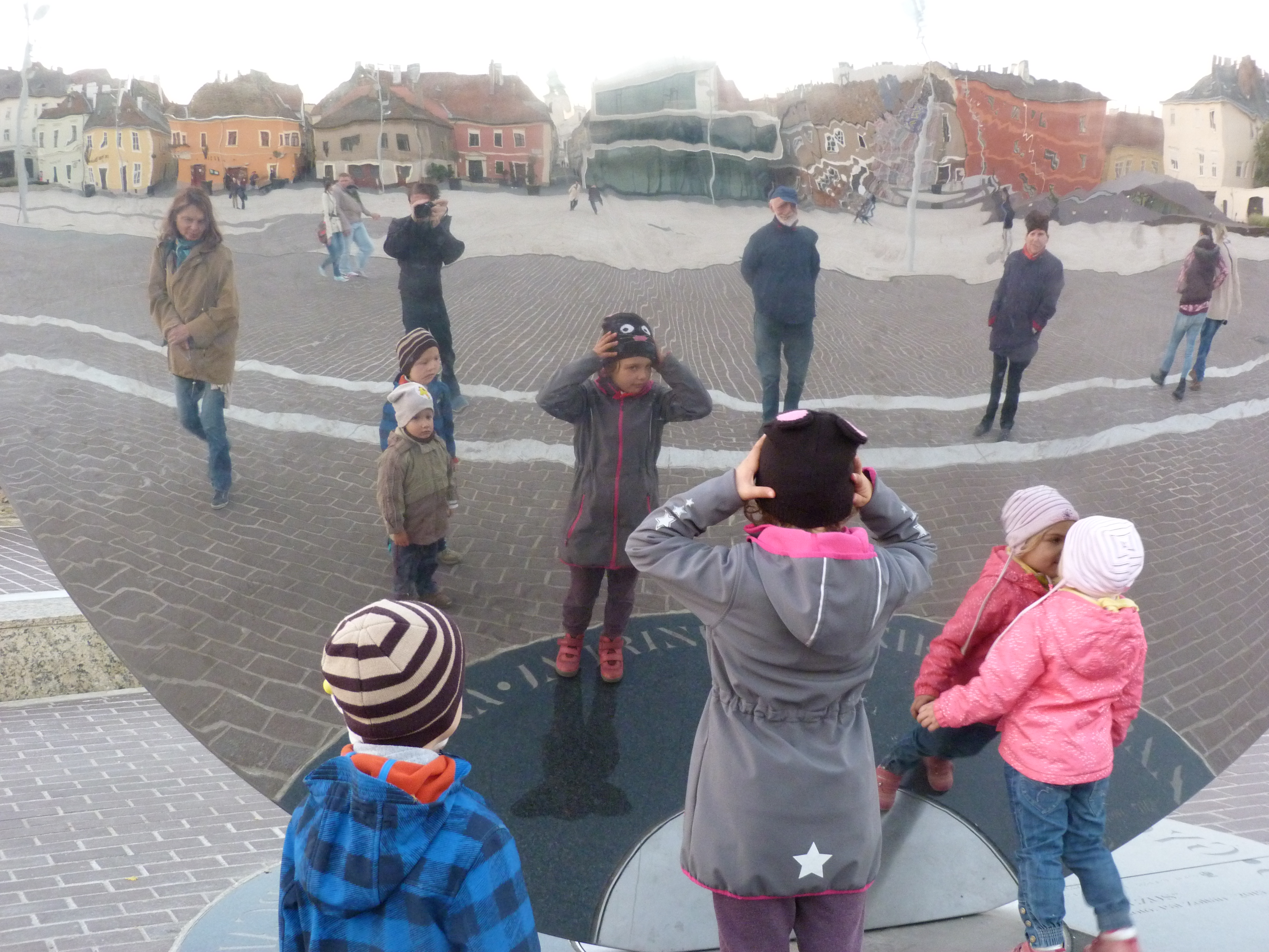 Mirror statue. Győr, Hungary. Saturday, 31st of October, 2015.